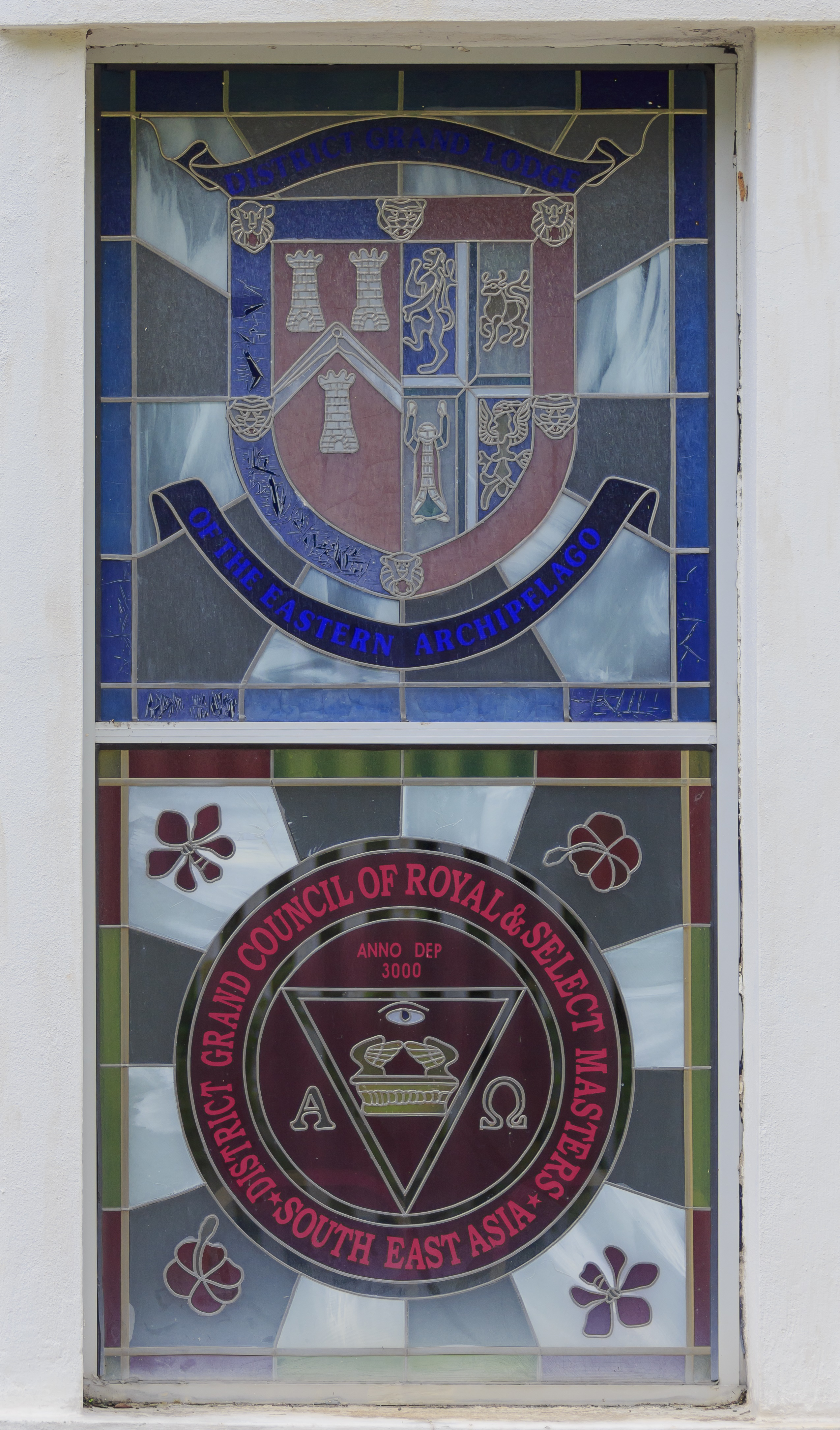 [Mirror Version] Kota Kinabalu, Sabah: Stained glass window of Kota Kinabalu Freemason Hall (view from outside)